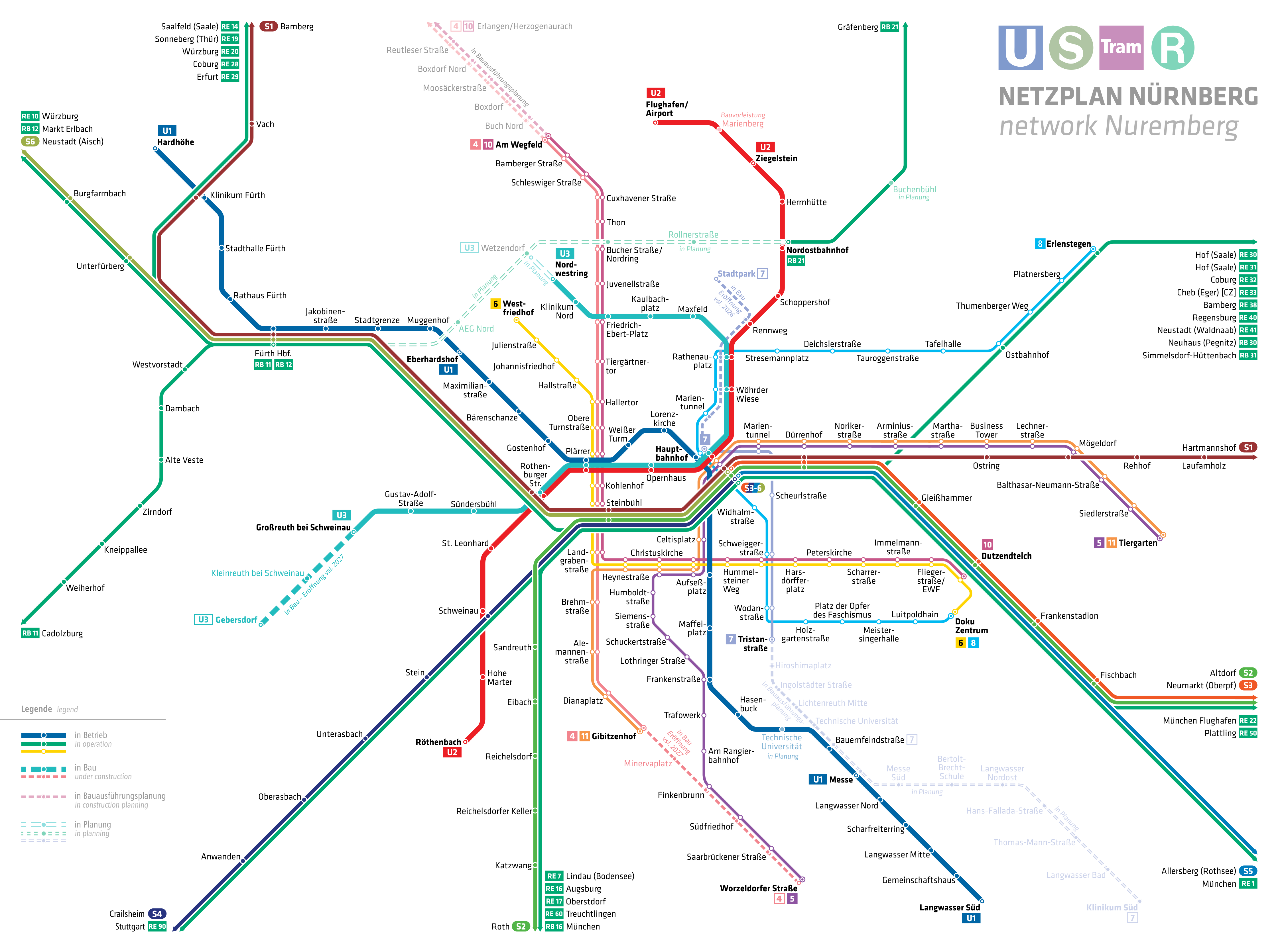 nuremberg city network map with underground, tramway, suburban railway and regional railway